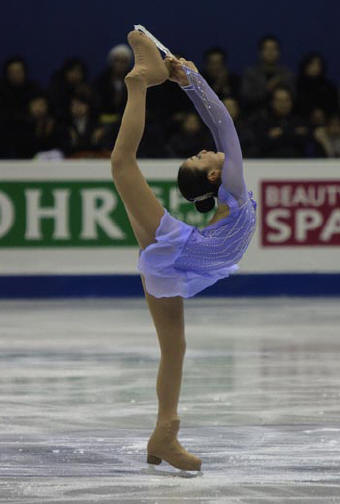 Mao Asada performs a Biellmann spin during her short program at the 2008-2009 Grand Prix Final.